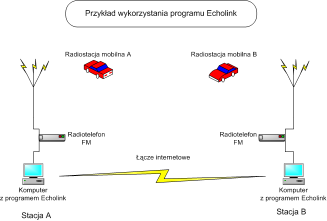 Example using Echolink program